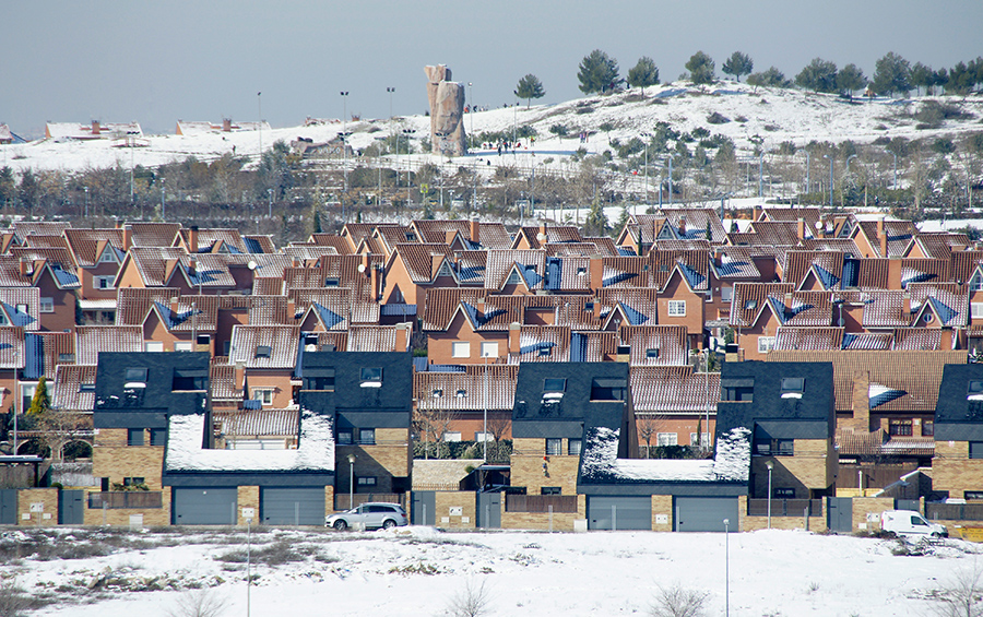 Nieve en Rivas Vaciamadrid. Madrid y rocódromo.